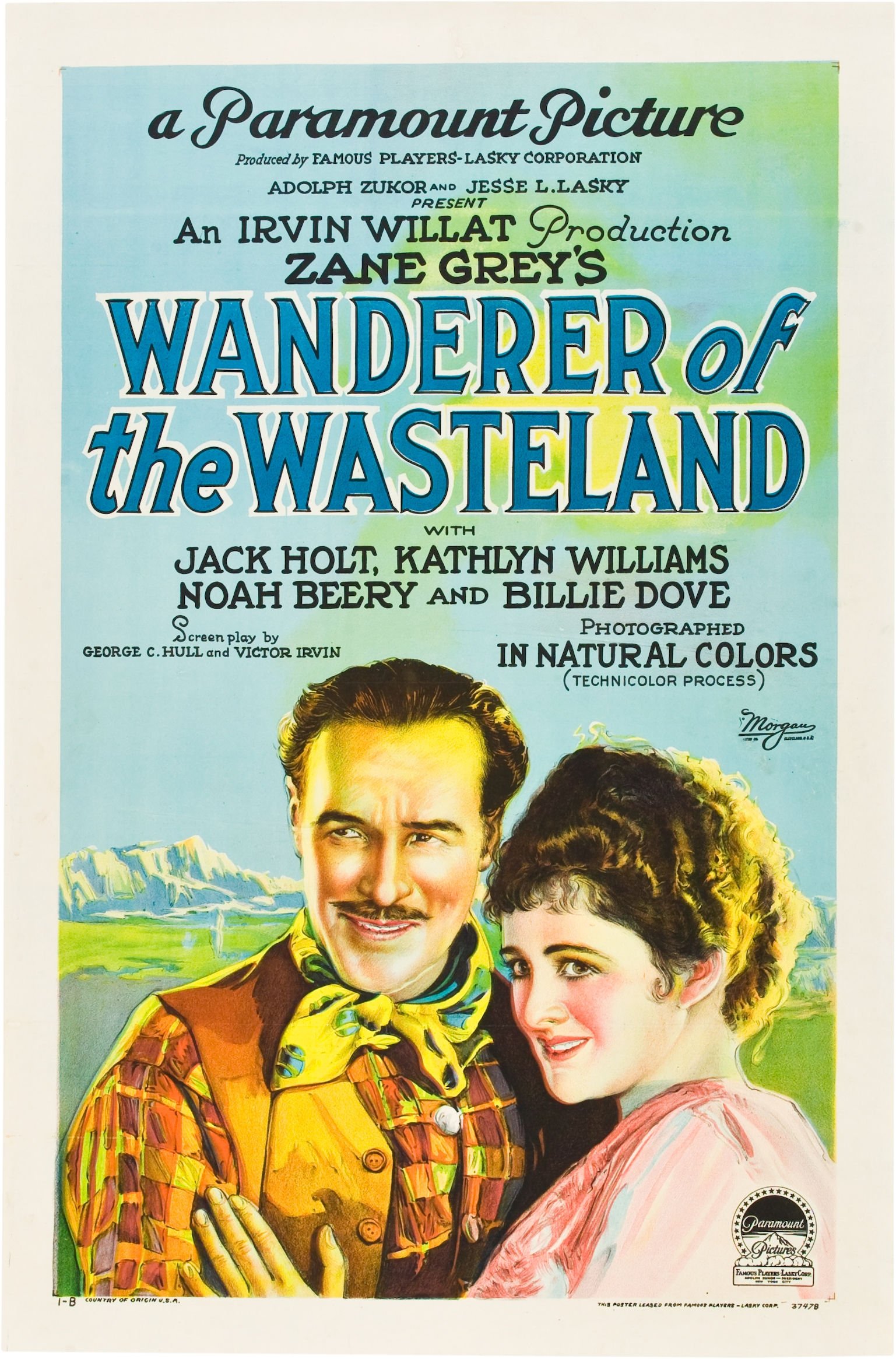 Poster for the American western film Wanderer of the Wasteland (1924). I don't know about the copyright status of the original upload. Someone else uploaded this totally different poster over it which now proves to be PD. We hope (talk) 05:19, 24 November 2014 (UTC) There are no copyright markings pertaining to the image as can be seen in the links above. At lower left is 1B-Country of origin USA. At lower left is This poster leased from Famous Players-Lasky Corp-37478.